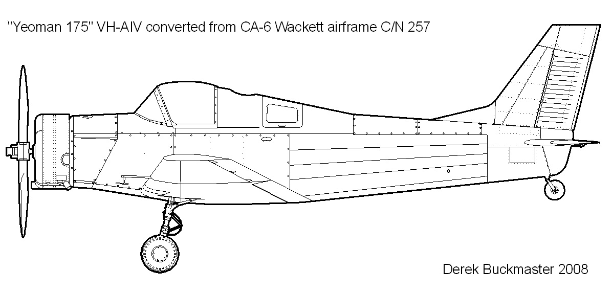 Side view of the Yeoman 175 aircraft. This was a one-off prototype to test the new all-metal empennage for the Yeoman Cropmaster aircraft.